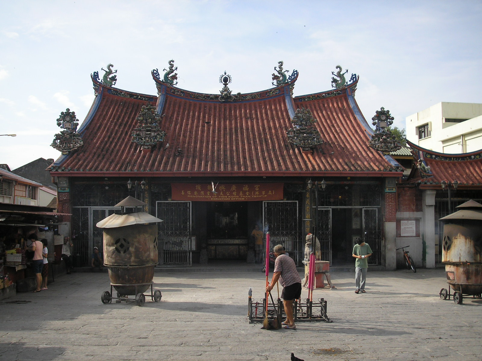 Image of the Kong Hock Keong (also known as Guanyin or Kuanyin Temple) in George Town, Penang.